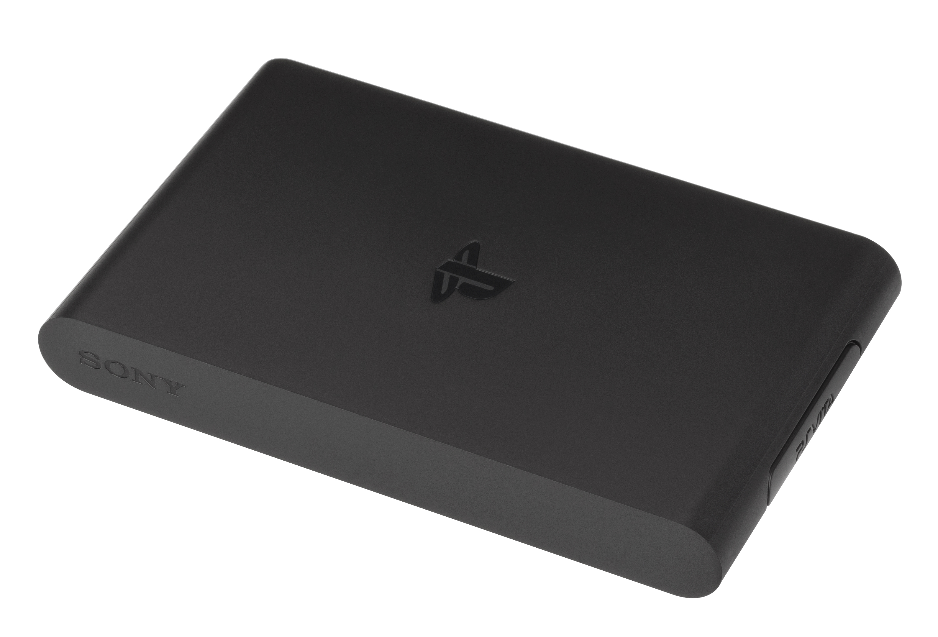 The PlayStation TV, a microconsole released by Sony in North America in 2014. The PlayStation TV (model VTE-1001) is a very small system made from the same internals as the PlayStation Vita handheld, and provides a way to play select Vita, PSP and PS One games on a television. The console can also be used to stream content from a PlayStation 4 system for remote play. Users can use either a DualShock 3 or DualShock 4 controller. On the right side of the console is a slot for PlayStation Vita game cards.